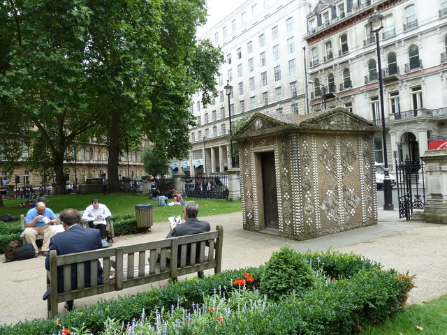 Taking a breather in Grosvenor Gardens